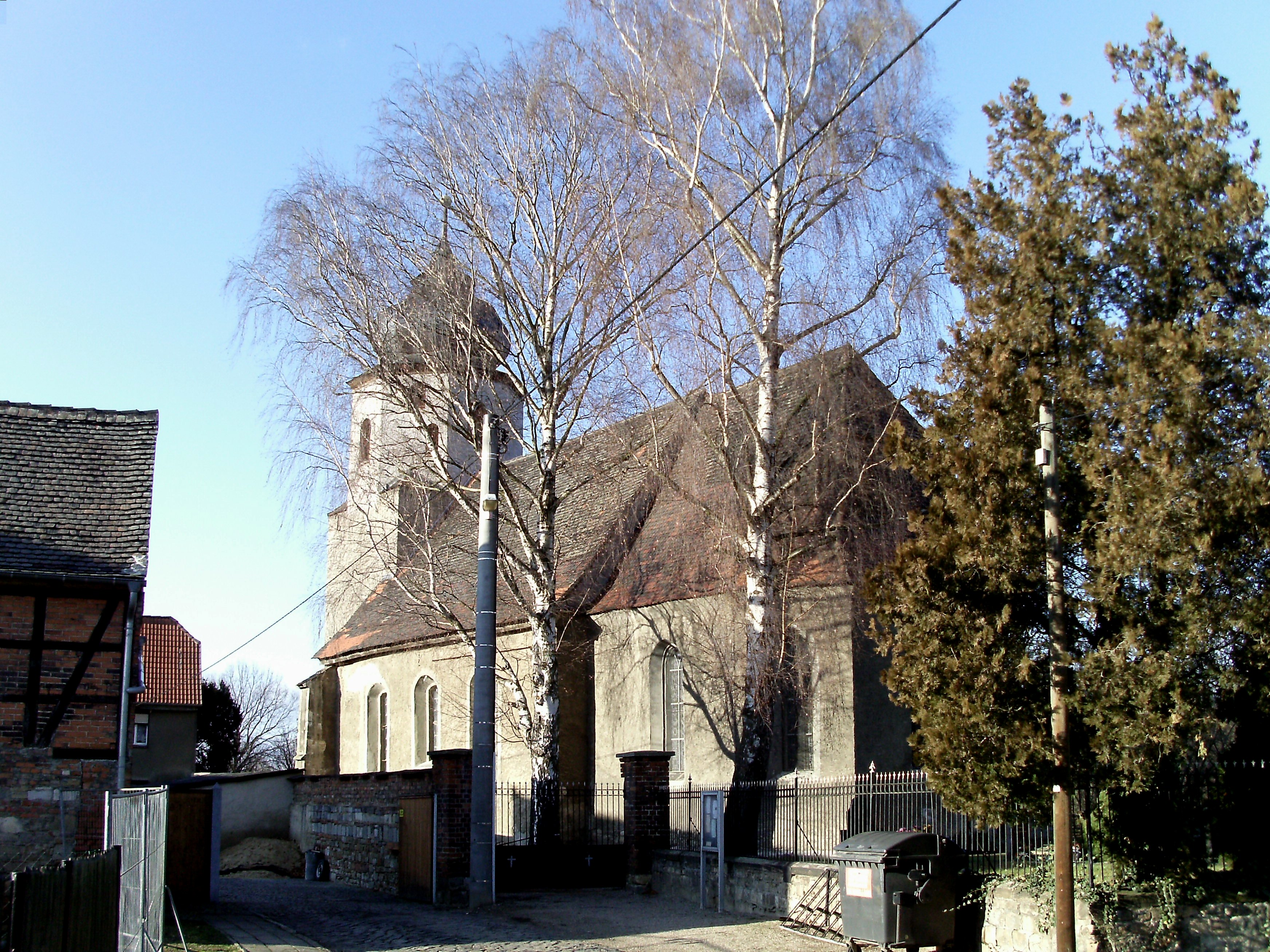 St. Barbara Church in Zweimen (Leuna, district of Saalekreis, Saxony-Anhalt)